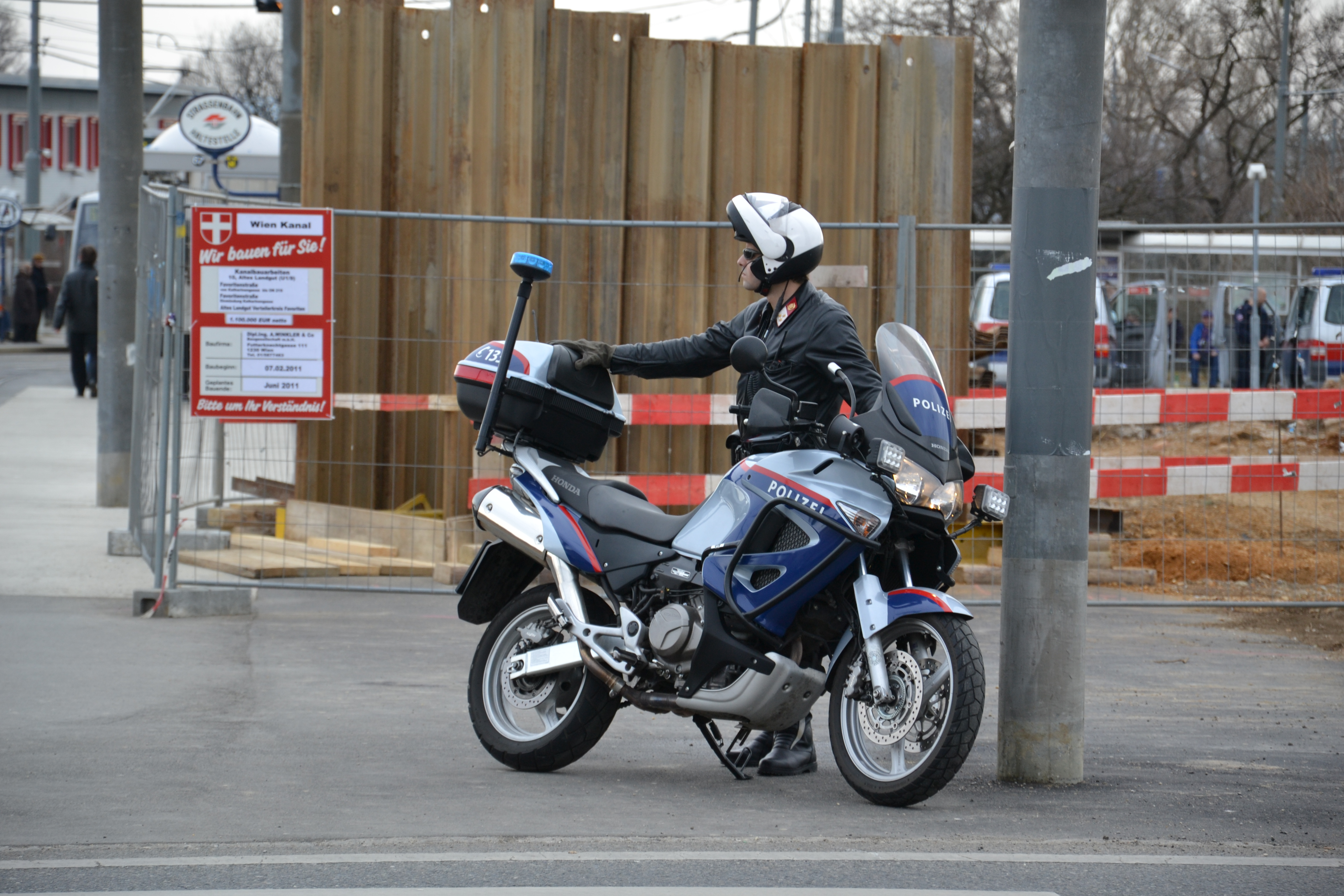 A motorcyclist of the Austrian federal police at Favoriten, Vienna.